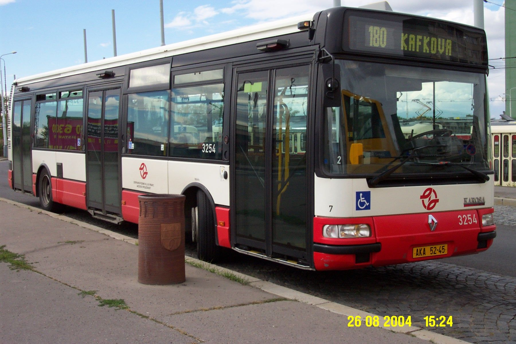 Karosa Citybus 12M in Praga, Czech Republic